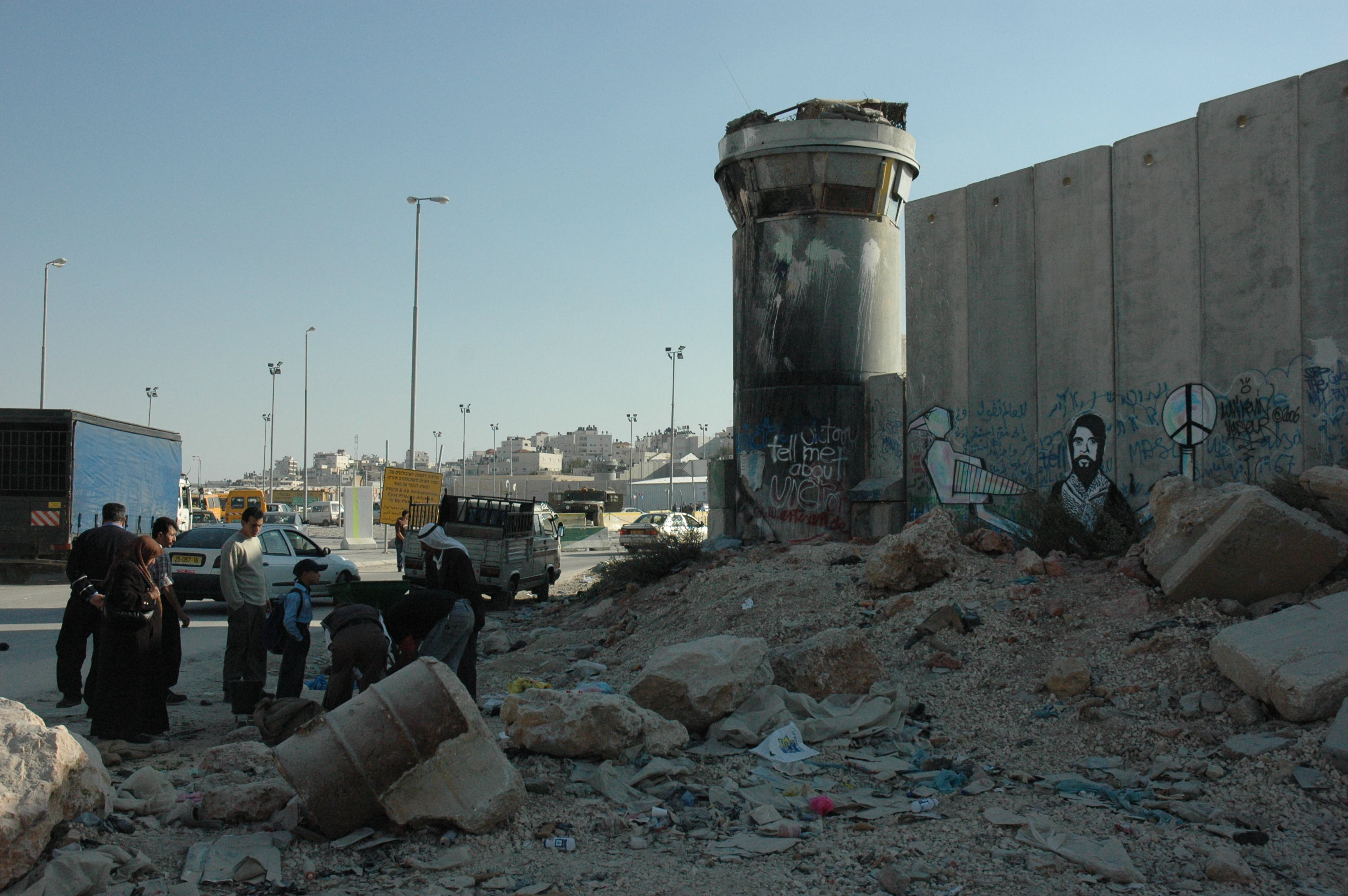 Monsieur Cana's graffiti in Qalandia check point.Palestine